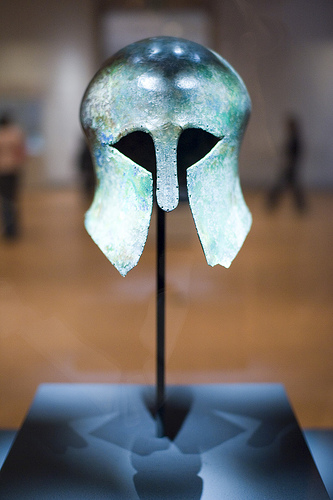 Greece / 6th century BCE / Korea Treasure No.904 Gift of Sohn Kee-chung One of the greatest Korean athletes of all times, Sohn Kee-chung(1912-2002) became a national hero when he won the gold medal in the marathon at the 1936 Berlin Olympic Games.